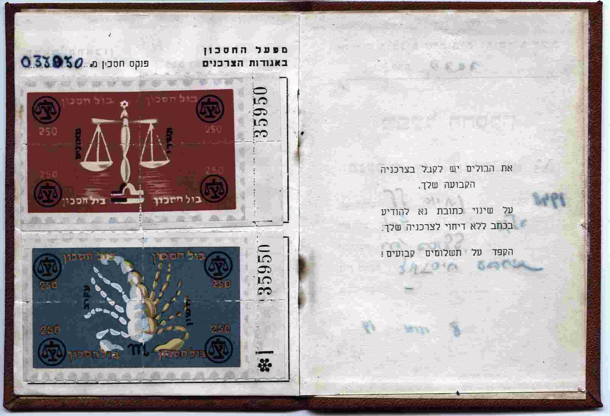 Israeli consumers' cooperative's savings notebook (1958)